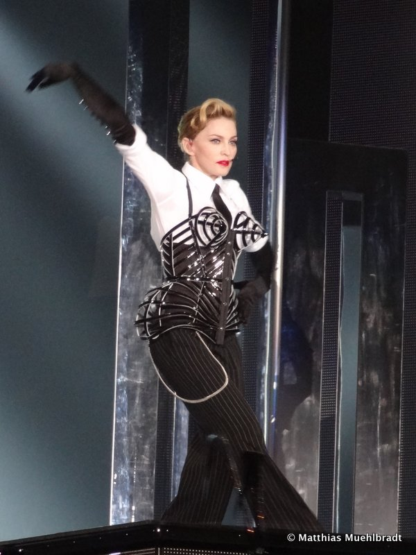 Madonna live at the o2 World, Berlin on 30 June 2012 during her MDNA Tour.